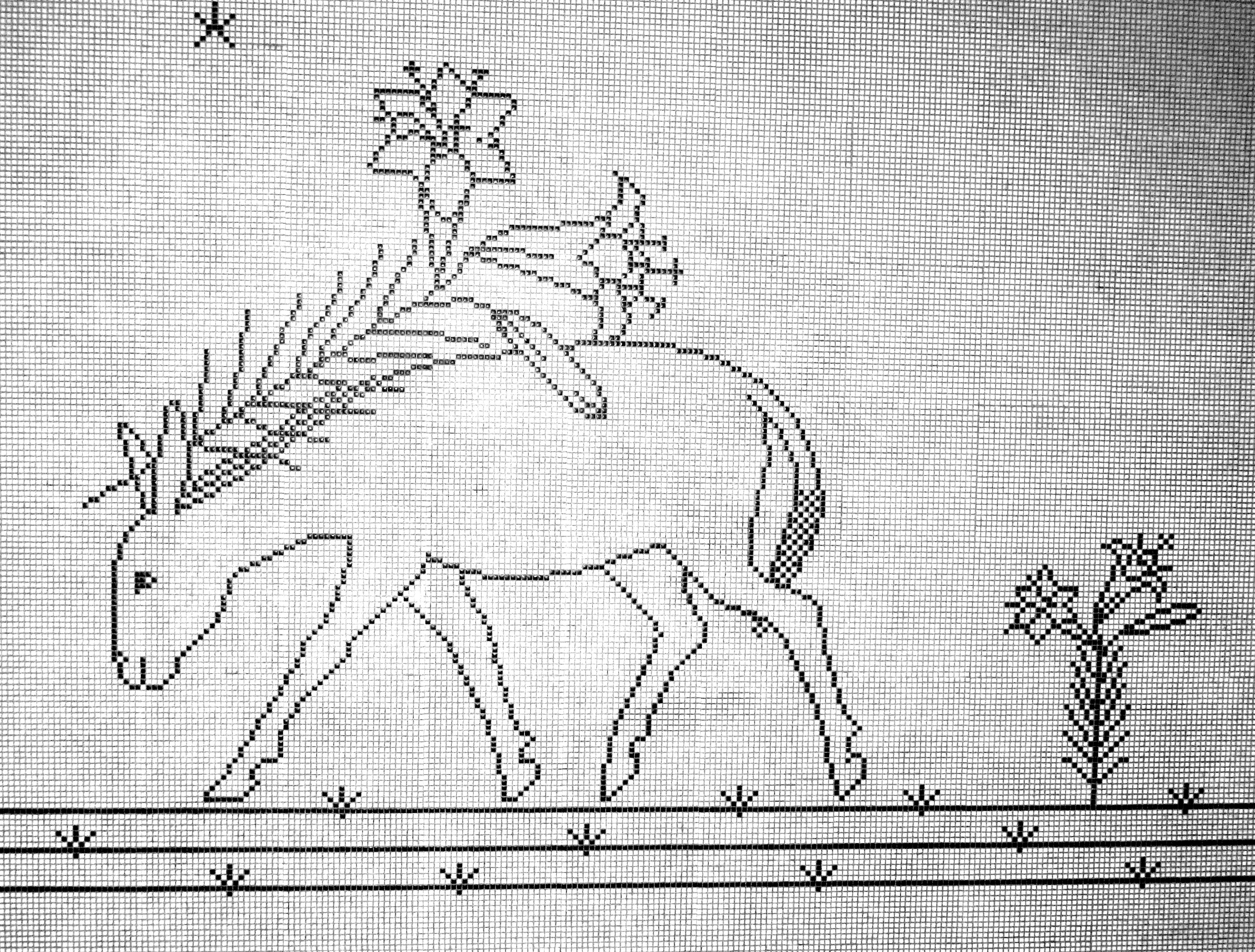 Mosaic by Manfred Stumpf at Habsburgerallee (Underground station), Frankfurt am Main